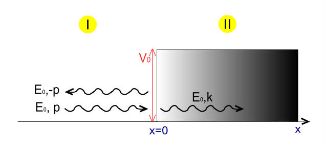 Step Potential